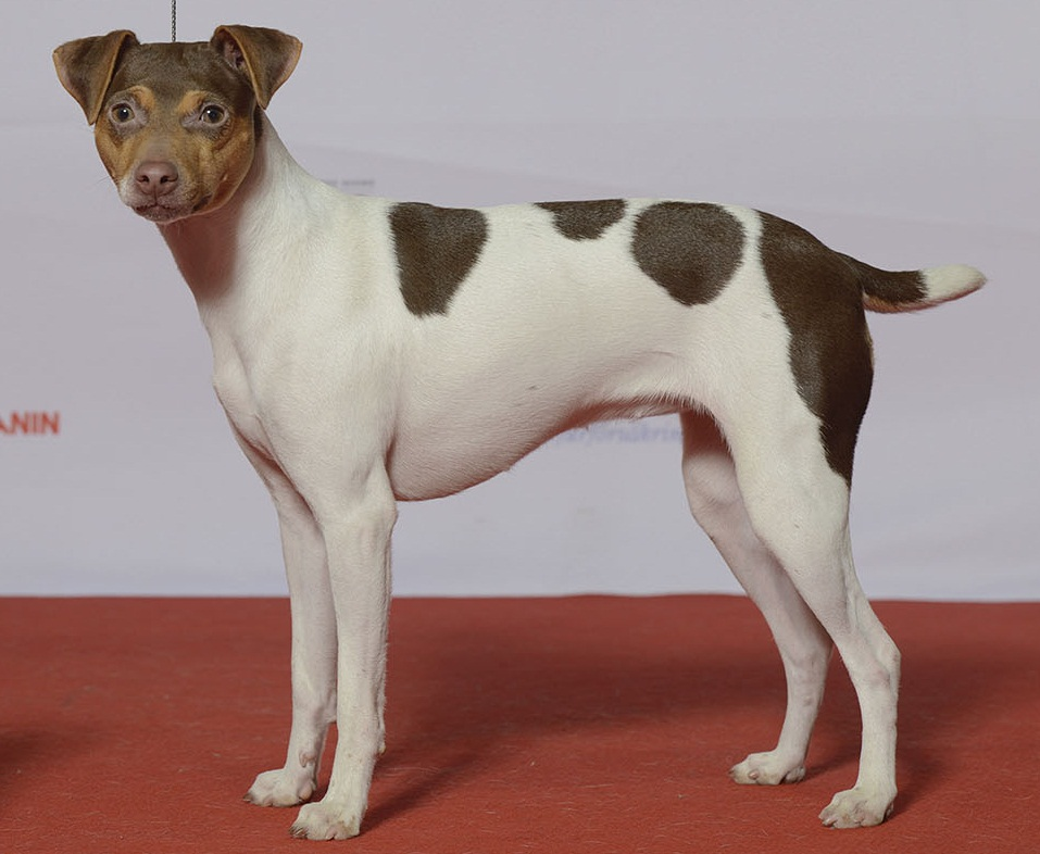 Brazilian terrier(Terrier brasileiro - Fox paulistinha) at Dog Show. Red tri-color.